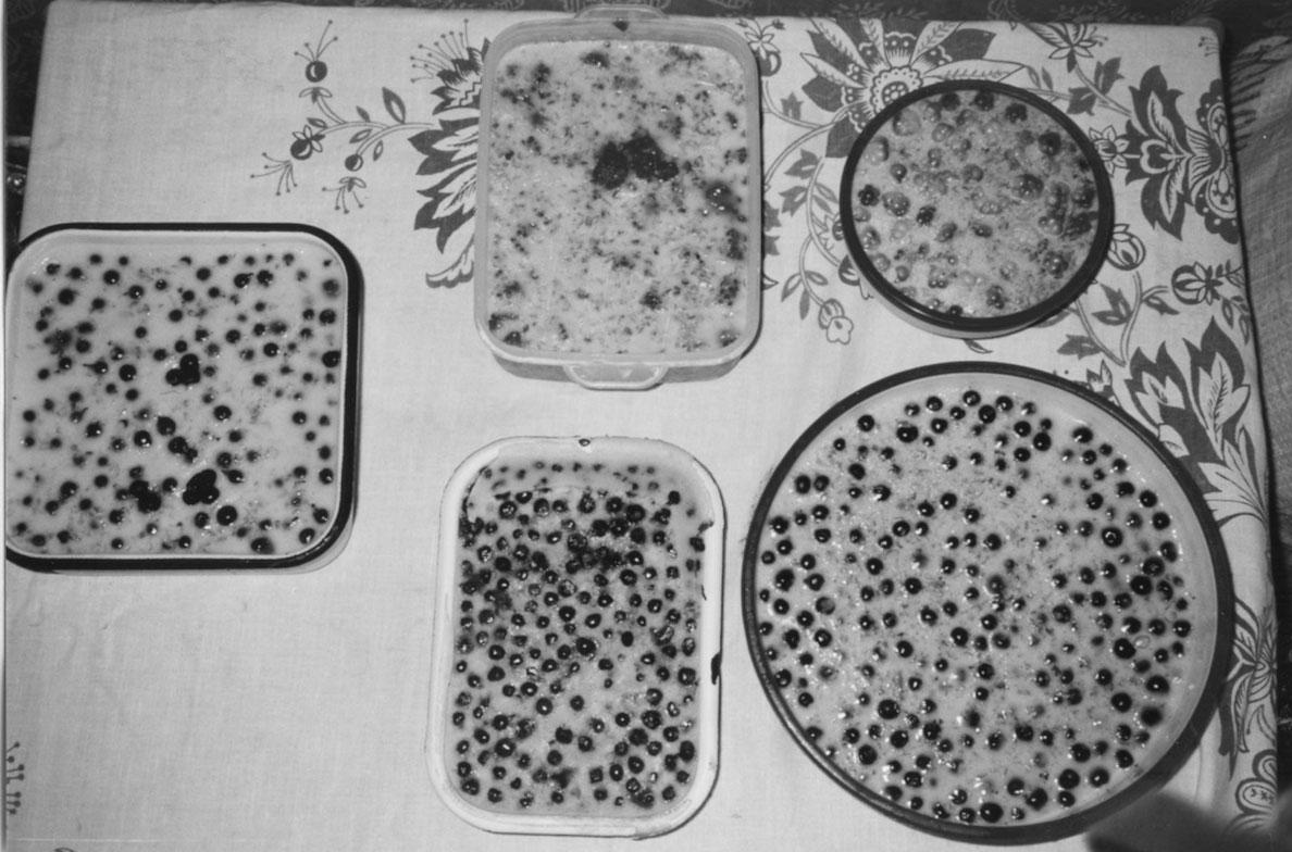 Traditional Nivkh dish - Mos (berry and fish skin custard).